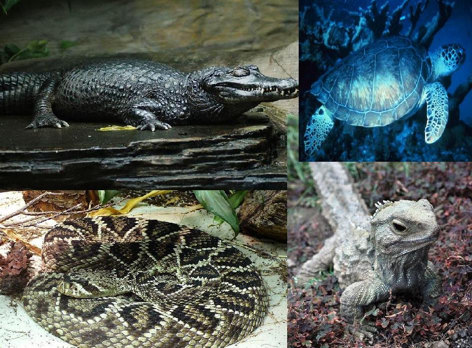 Reptilia (reptiles), based on: File:Buberel cayman 3.jpg File:Crotalus adamanteus (5).jpg File:Karettschildkroete 01.jpg File:Henry at Invercargill.jpg All of them are either under a free licence already in Wikicommons or in the public domain